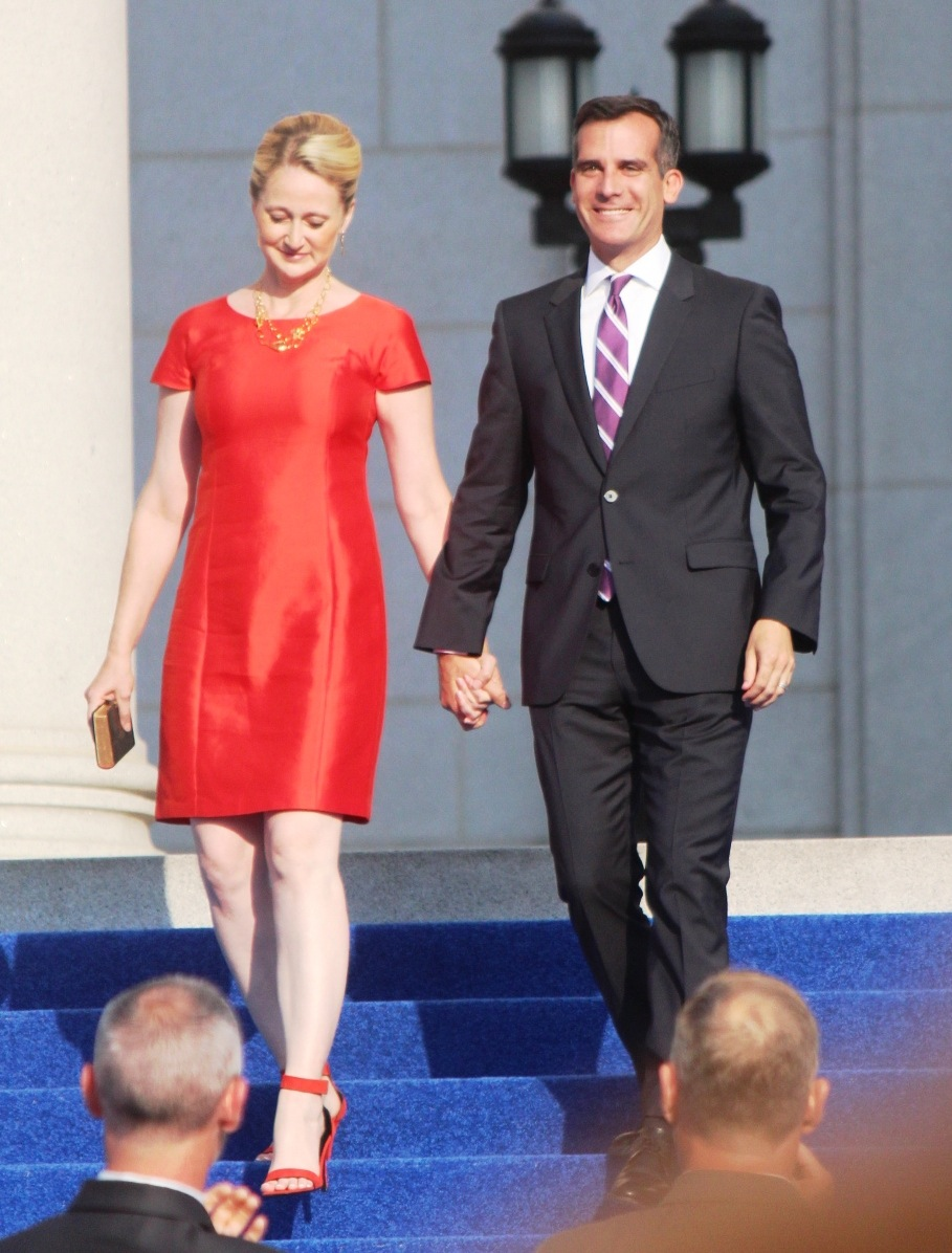 Mayor Garcetti and his wife Amy Elaine Wakeland greet the attendees